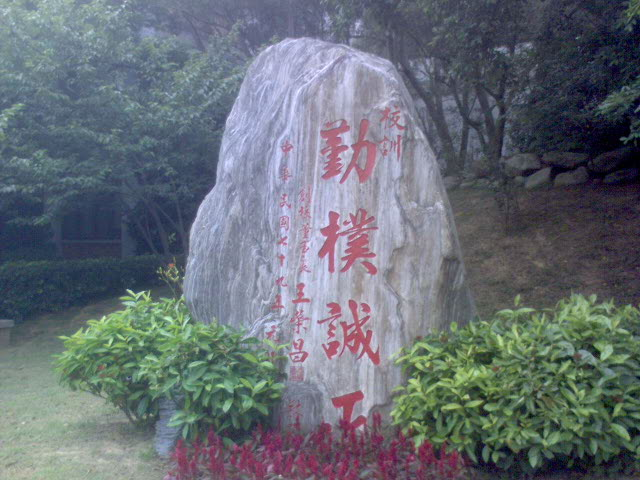 Chung Hua University school motto stele.